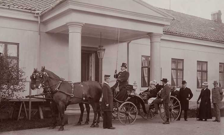 Swedish queen Sophia arrives at the Skinnarbøl estate (in Norway) for a nice summer holiday (picture taken between 1892 and 1904)